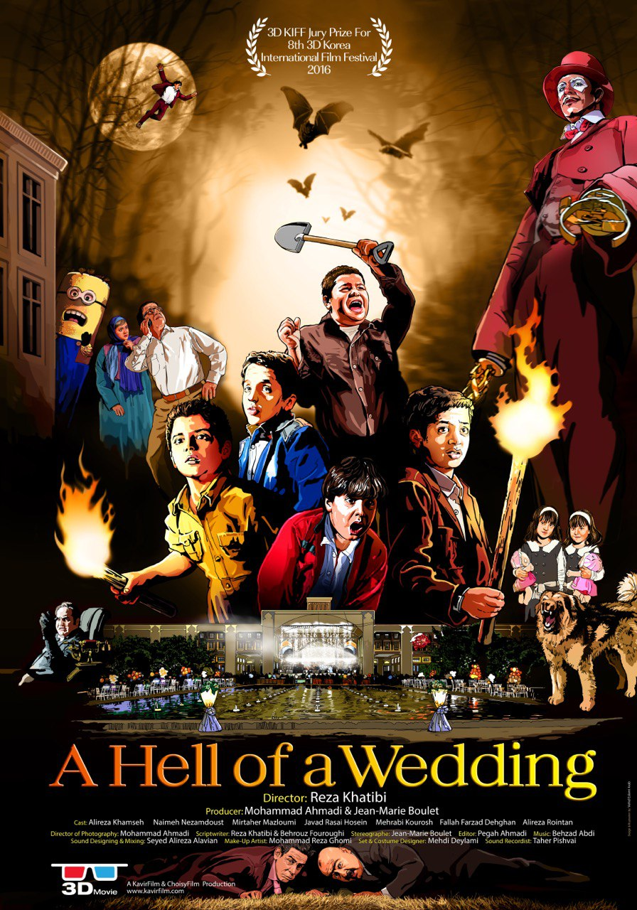 Poster